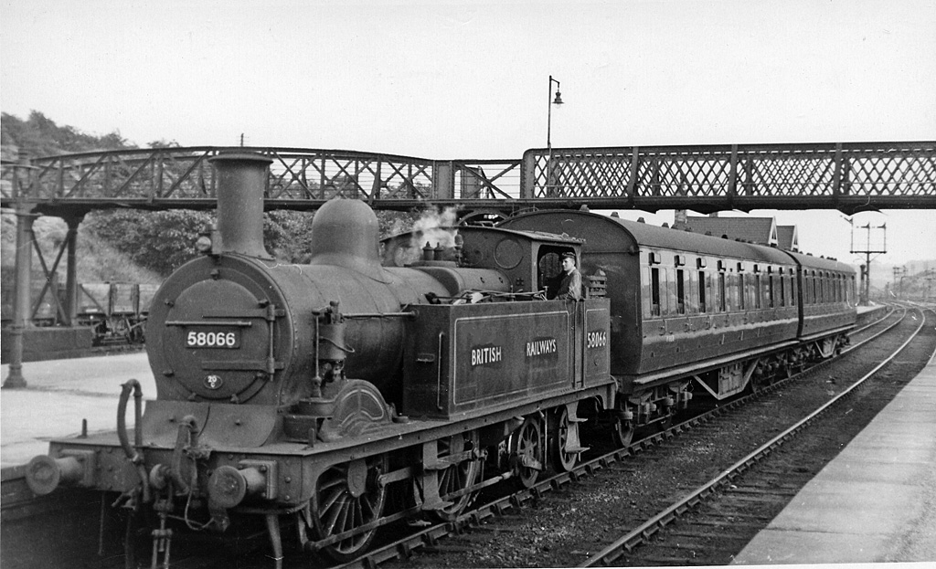 Cudworth Station, with the push-and-pull from Barnsley. View SE, towards Wath Road Junction, Rotherham and Sheffield on the ex-Midland Sheffield - Leeds main line, also Sheffield via Chapeltown; the train to Barnsley (Court House)(here headed by Johnson/Deeley 1P 0-4-4T No. 58066) would go forward and turn off at Cudworth South Junction for Barnsley via Monk Bretton. From 19/4/60 Court House station was closed and these trains then ran into Barnsley Exchange, but ceased from 1/1/68 when Cudworth station was also closed along with all passenger services along the main line between Wath Road Junction and Oakenshaw Junction owing to mining subsidence, although some freight traffic lingered on until 1986.